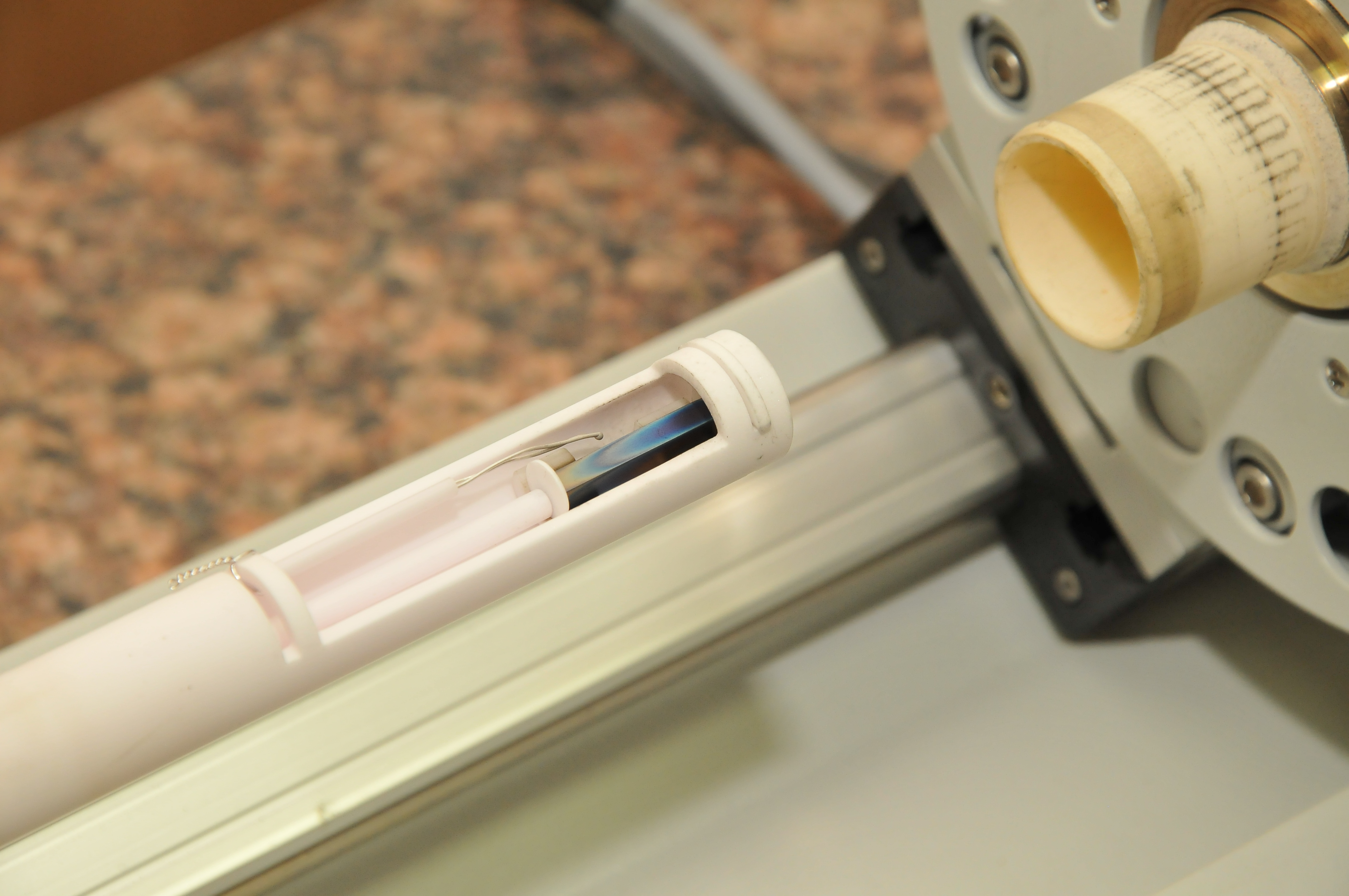 Steel sample in dilatometer holder. Annealing colours are clearly seen.